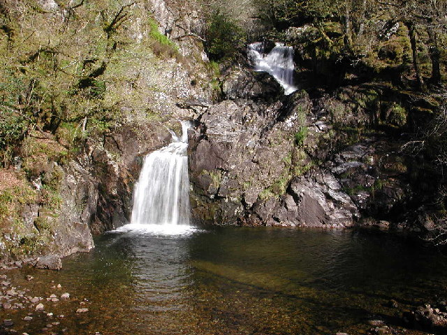 Eas Chia-aig. A waterfall on the river in Gleann Cia-aig, which drains from the Lochy Lochy hills.